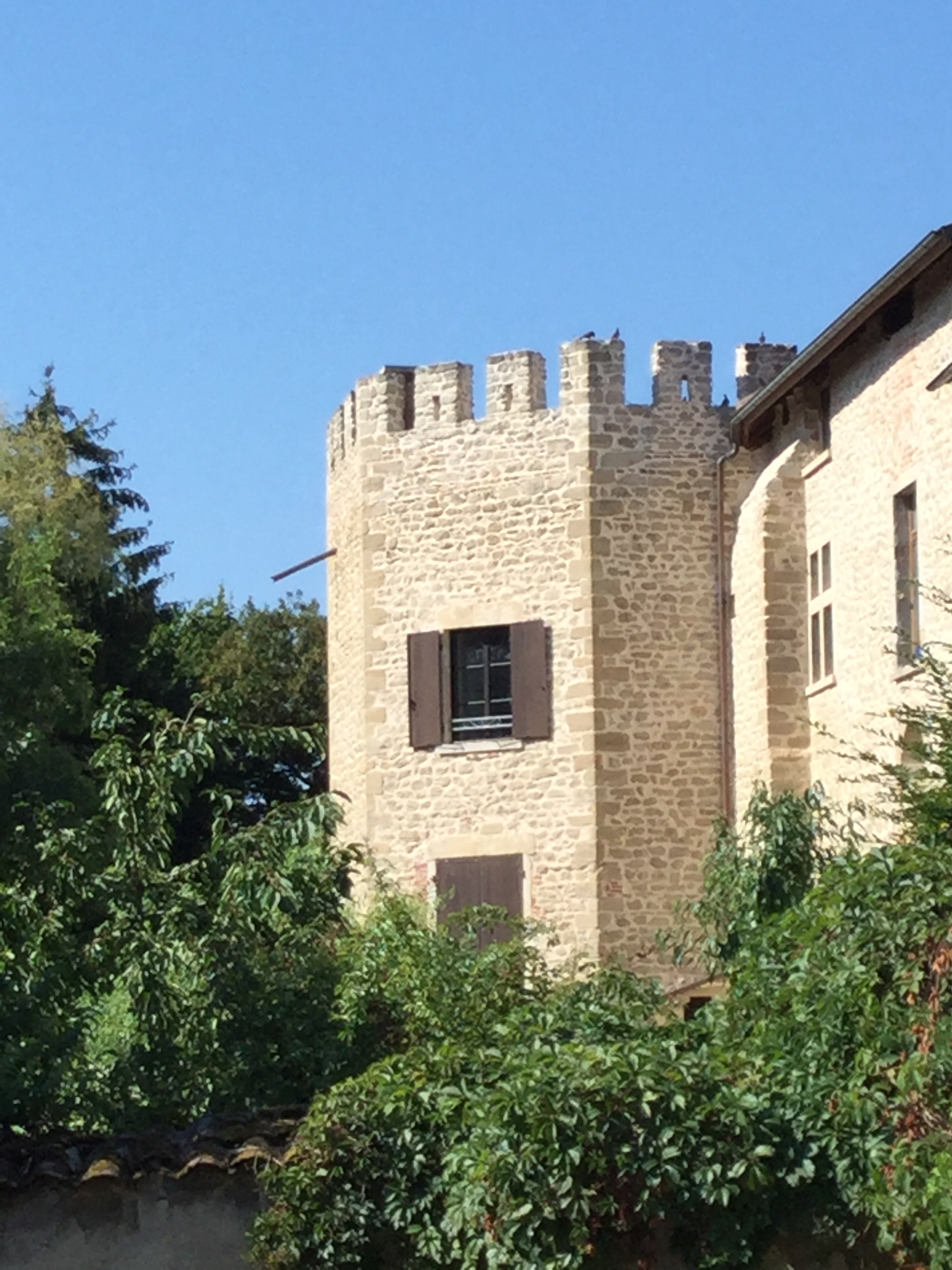 Saint-Georges-d’Espéranche Castle